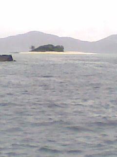 Sandy Spit